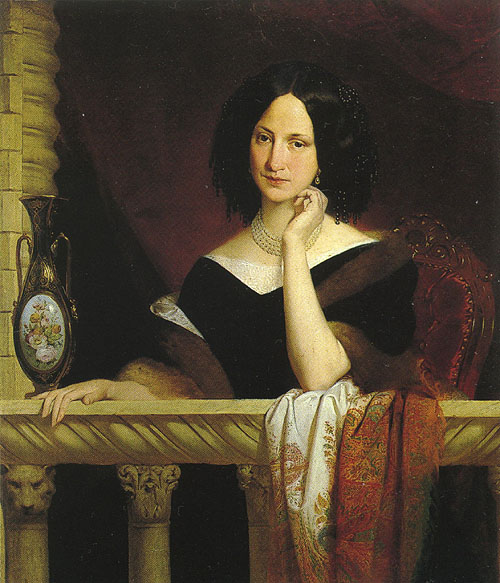 Portrait of Maria Theresia of Austria-Este (1817–1886), Archduchess of Austria, Princess of Modena, wife of Henri, comte de Chambordlabel QS:Lde,"Porträt Maria Theresia von Österreich-Este (1817–1886), Erzherzogin von Österreich, Prinzessin von Modena, Ehefrau Henri d'Artois'"label QS:Len,"Portrait of Maria Theresia of Austria-Este (1817–1886), Archduchess of Austria, Princess of Modena, wife of Henri, comte de Chambord"